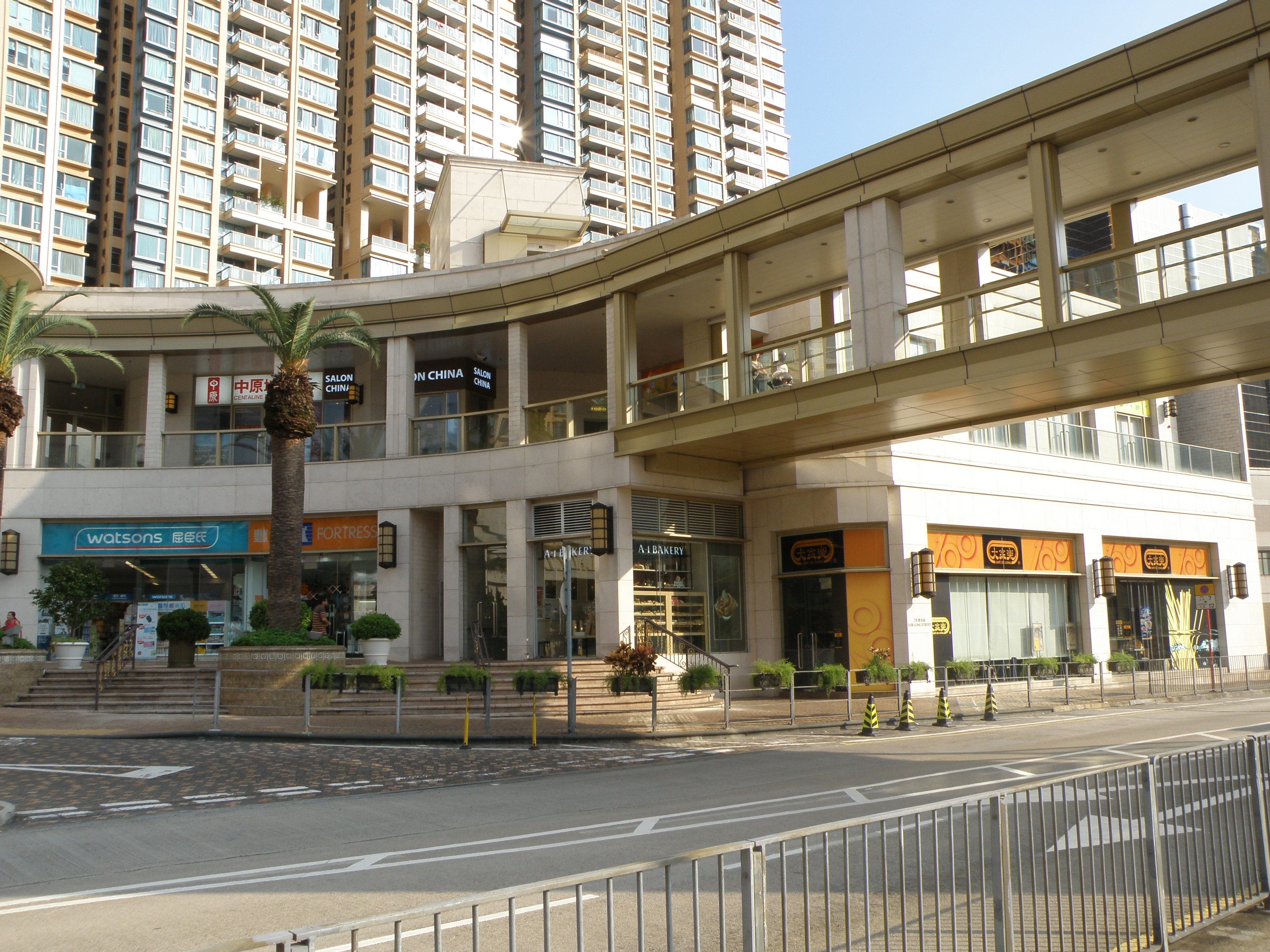 The Palazzo (shopping mall) in Fo Tan, Hong Kong.